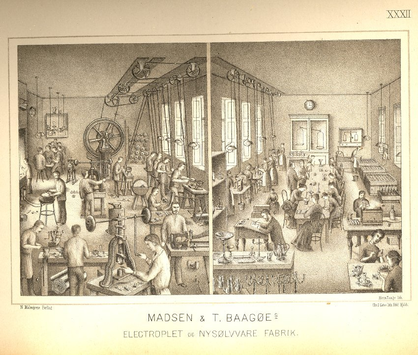 Madsen & T. Baagøes Elektroplet- og Nysølvvarefabrik at Tordenskjoldsgade 30 in Copenhagen, Denmark